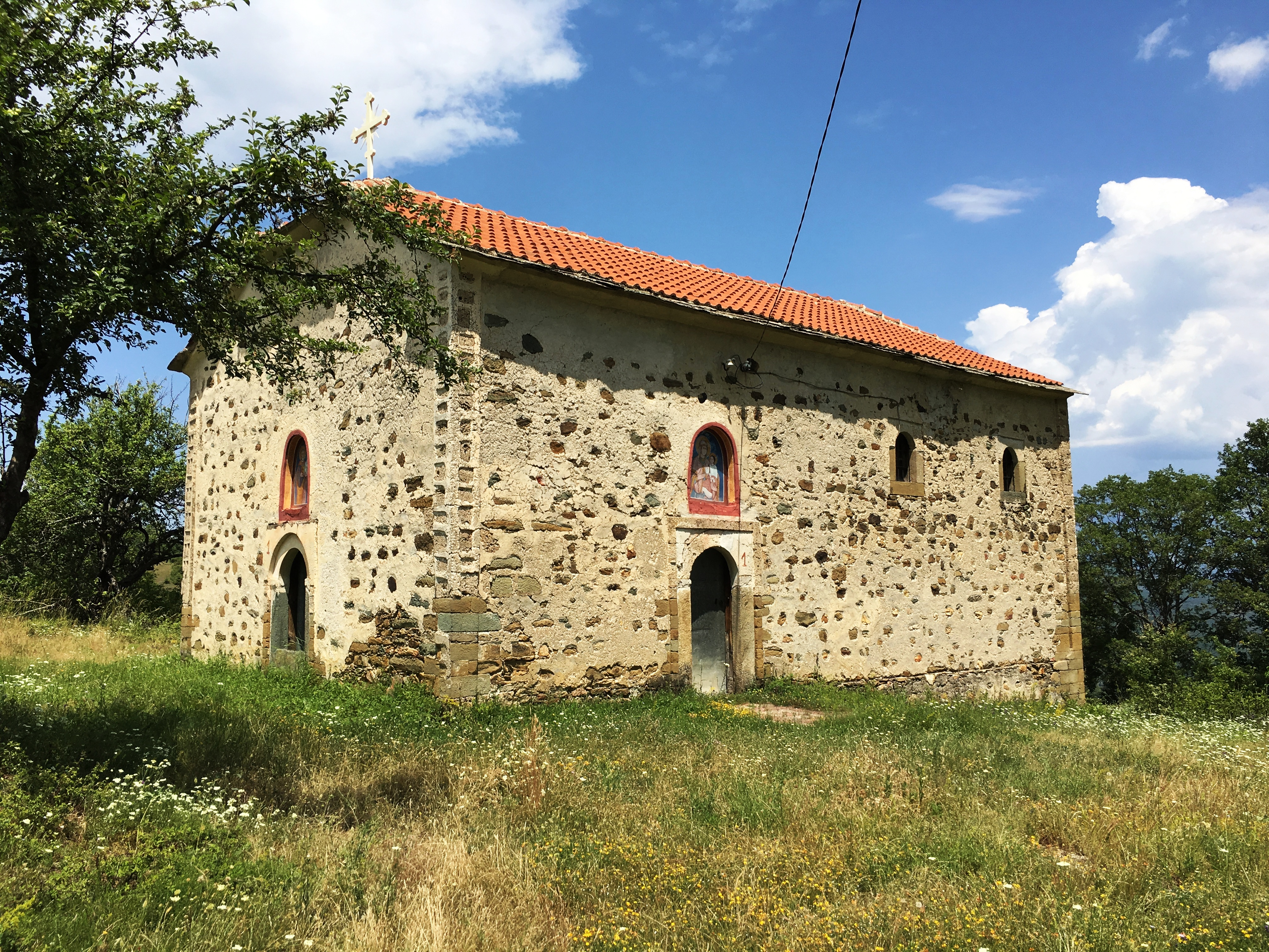 Sts. Peter and Paul Church in the village of Lupšte